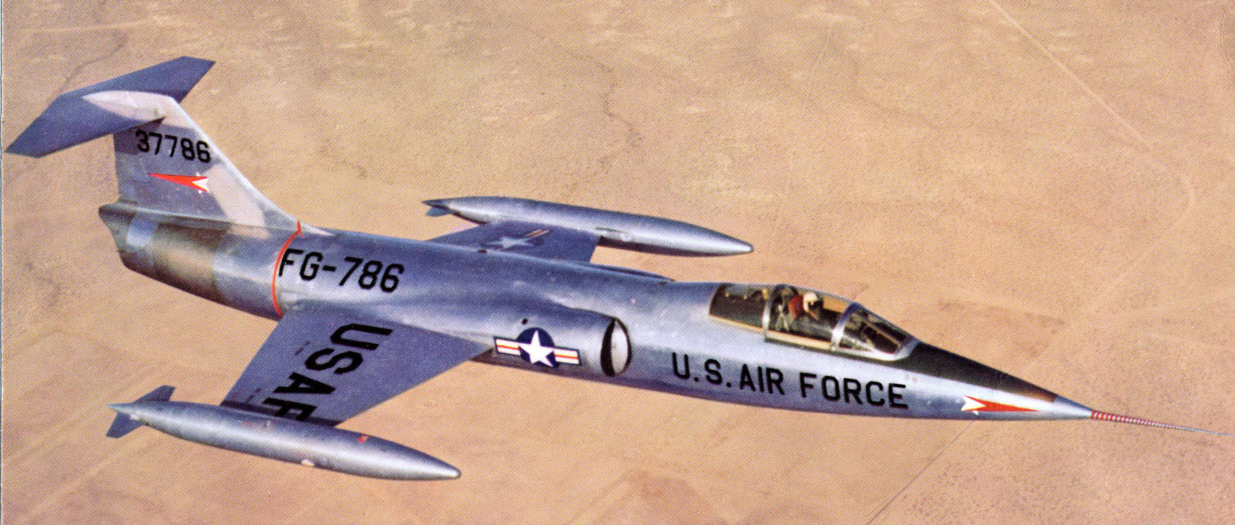 Lockheed XF-104 (S/N 53-7786) in flight. This aircraft crashed on 11 July 1957 due to uncontrollable tail flutter. The pilot, Bill Park, ejected safely.